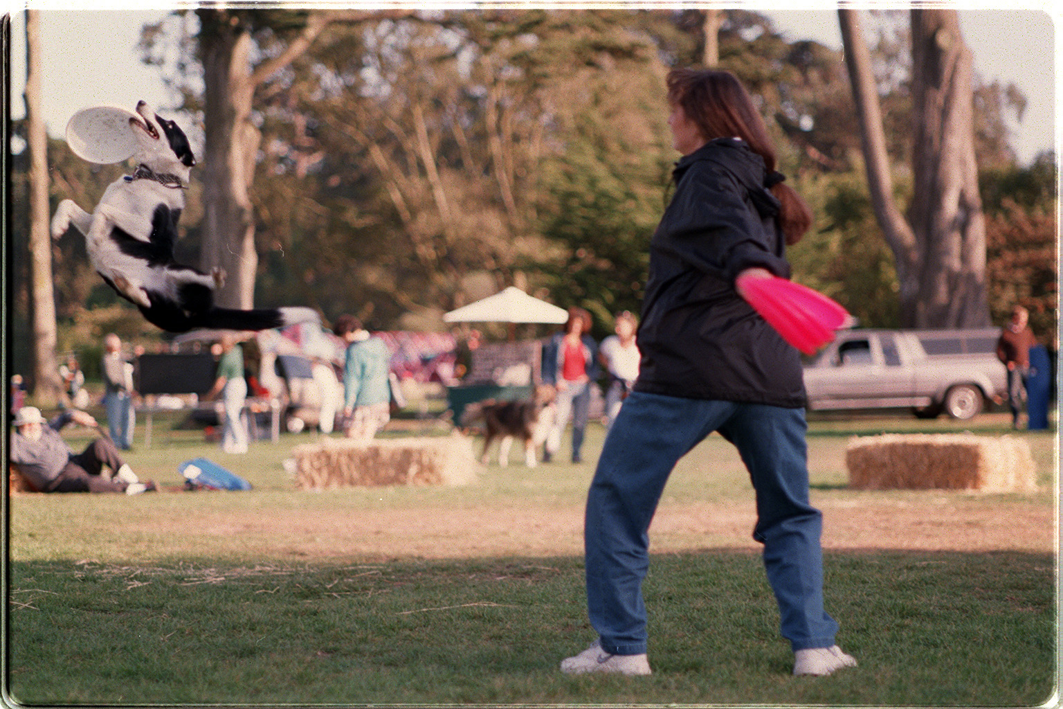 Frisbee playing dog at 2002 Pet Pride Day, SF.9th Annual Pet Pride Day 2002 October 27, 2002 Sharon Meadow, Golden Gate Park Festive event featured a Halloween costume contest, demonstrations by service animals, recognition of animal talent . Pet Pride Parade Search and Rescue Dog Demo Halloween Costume Contest Reunion Rescue Frisbee Pit Bulls Animal Planet Pet Trick Auditions Benefit for Friends of San Francisco Animal Care and Control Photo by Nancy Wong